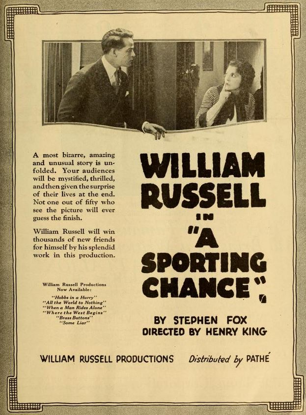 Ad for the American drama film A Sporting Chance (1919) with William Russell and Fritzi Brunette, on page 1869 of the June 28, 1919 Moving Picture World.